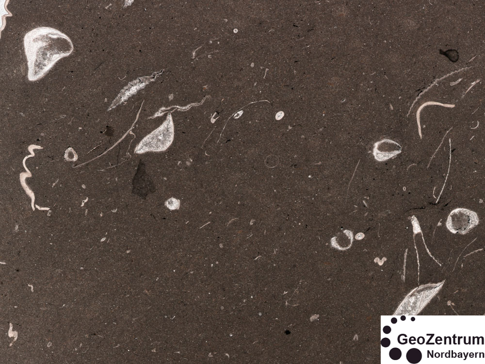 Floatstone (Dunham-classification). Width of Picture is 20mm. Picture by courtesy of Axel Munnecke, Geozentrum Nordbayern